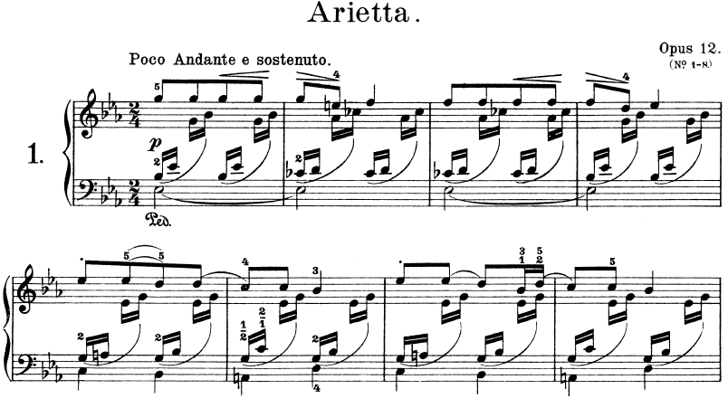 Fragment first Lyric Piece Edvard Grieg, pd